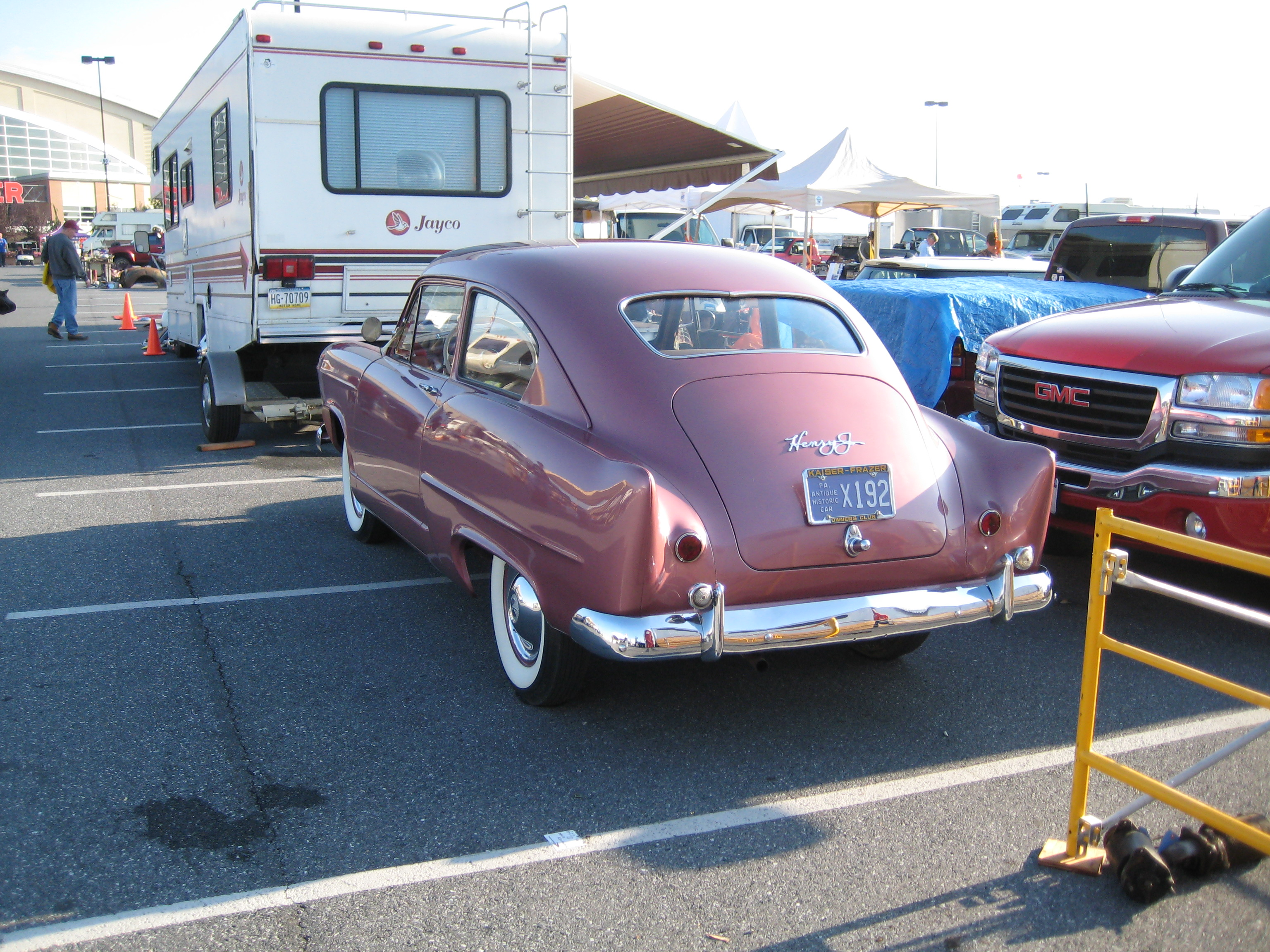 1951 Kaiser Henry J.